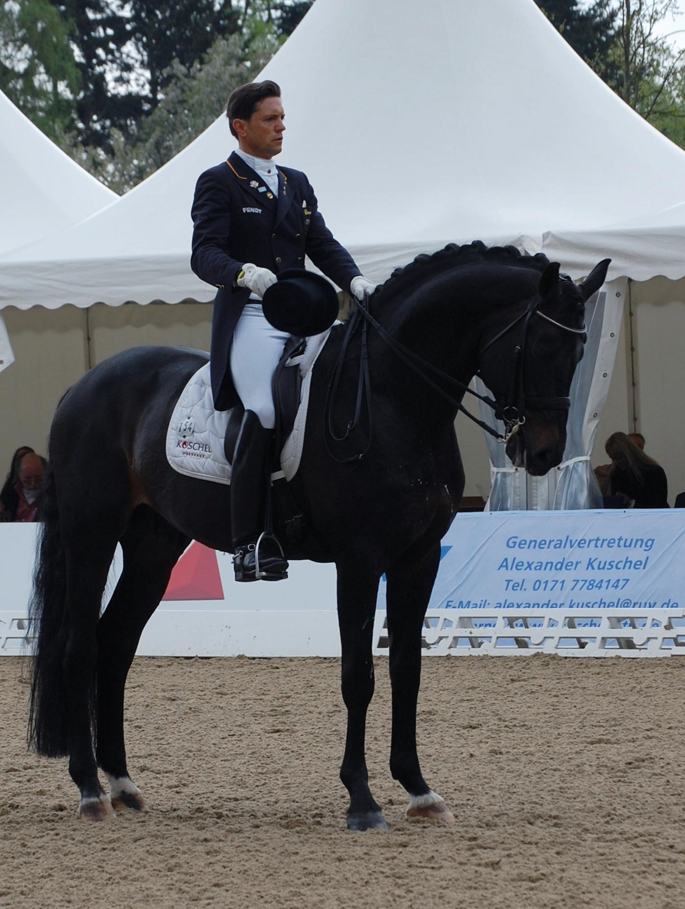 German dressage rider Christoph Koschel with Rubin Cortes OLD, Grand Prix de Dressage at the CDI 4* German Dressage Derby 2013